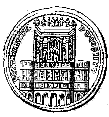 738 woodcuts illustrating the work A Dictionary of Roman Coins, Republican and Imperial (1889). To identify a coin please look at the filename to identify a page number, and check the Dictionary on numiswiki